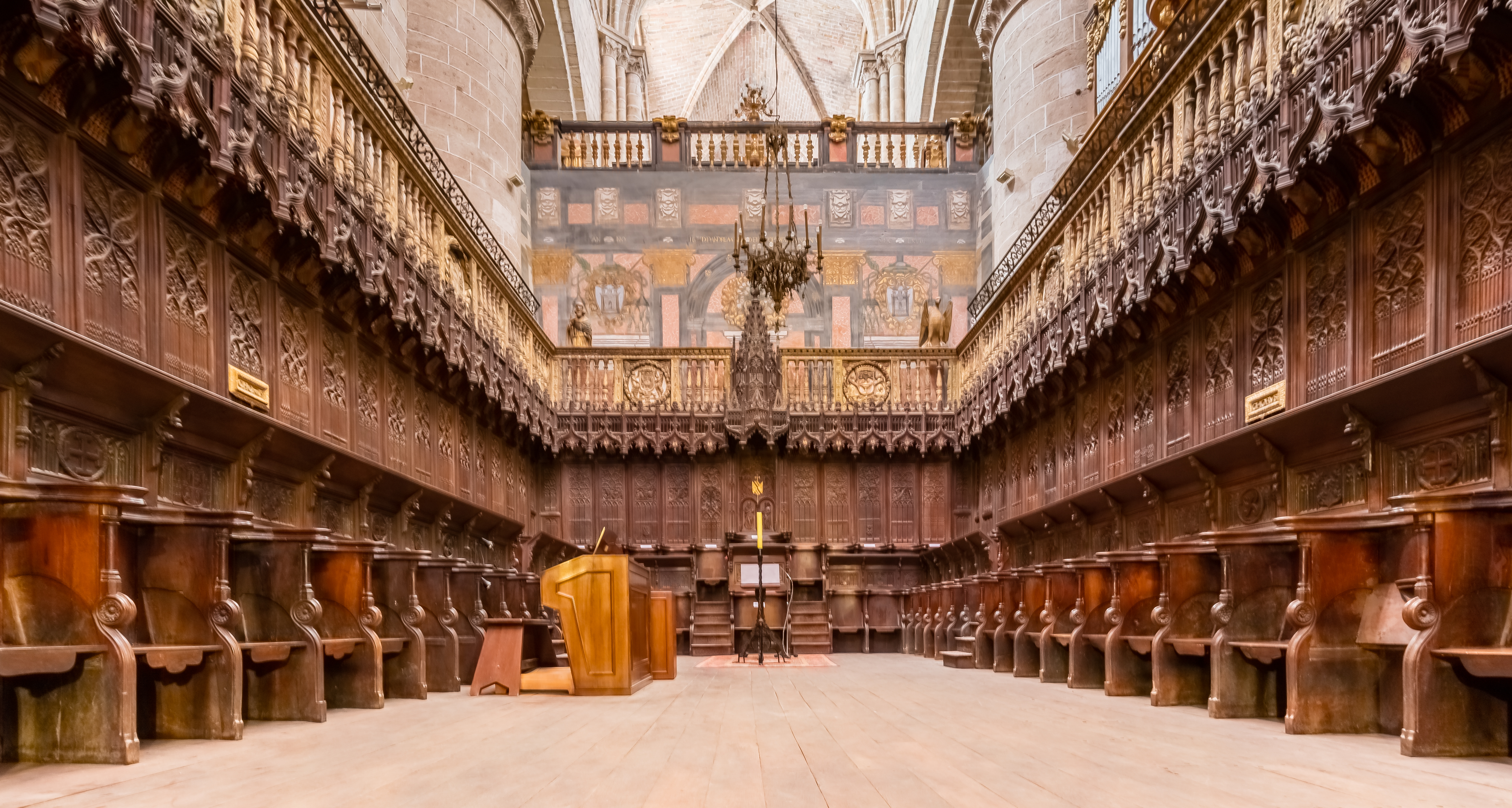 Cathedral of Santa María, Sigüenza, Spain